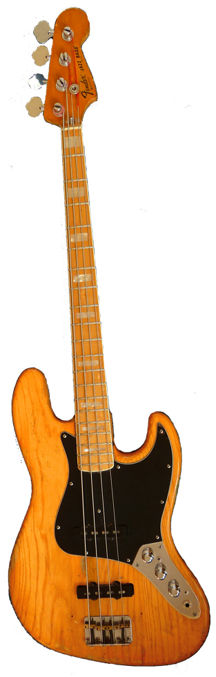 70's Fender Jazz Bass with a maple neck